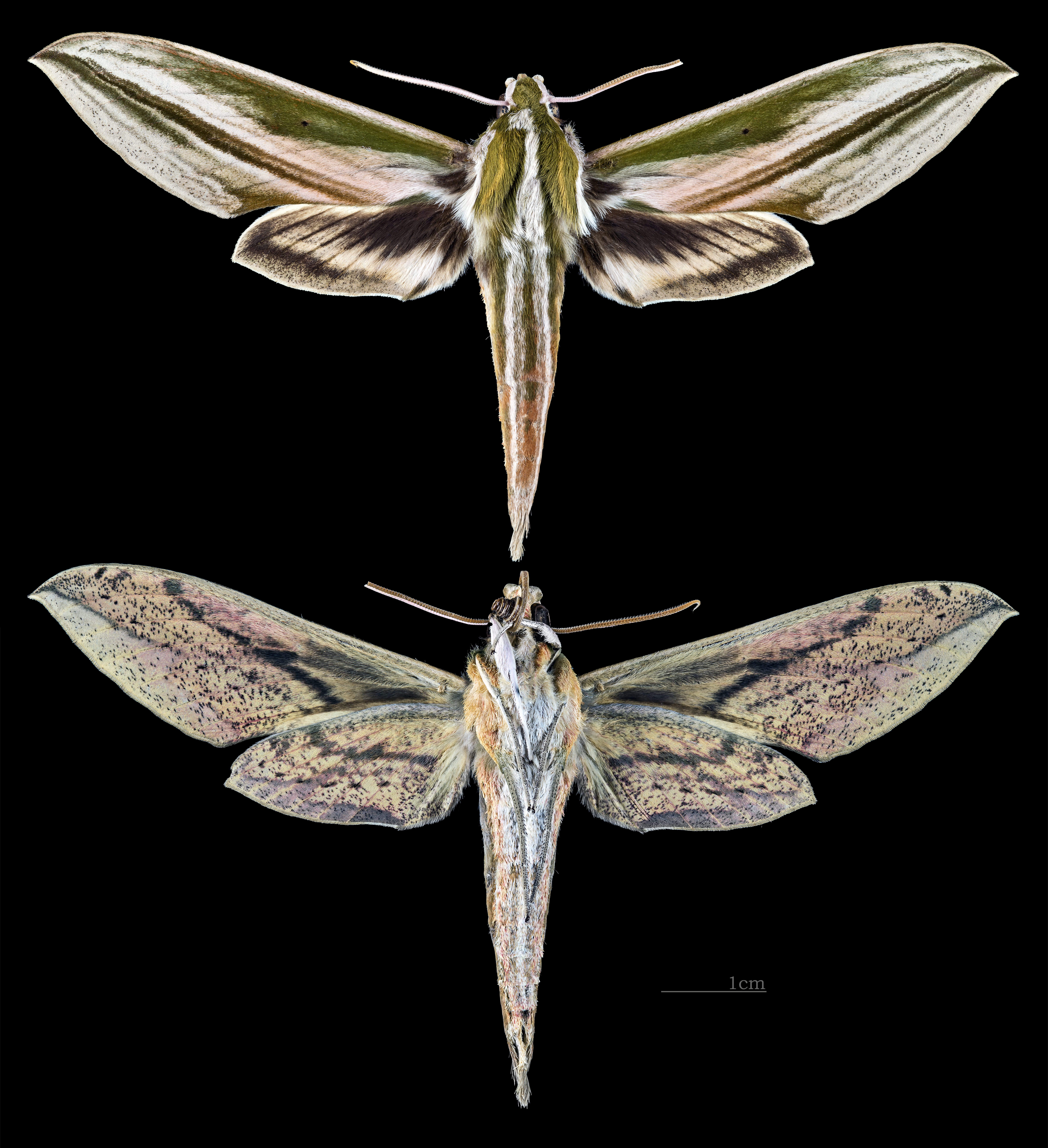 Cechenena scotti - Two views of same specimen Collection of the Mathematician Laurent Schwartz